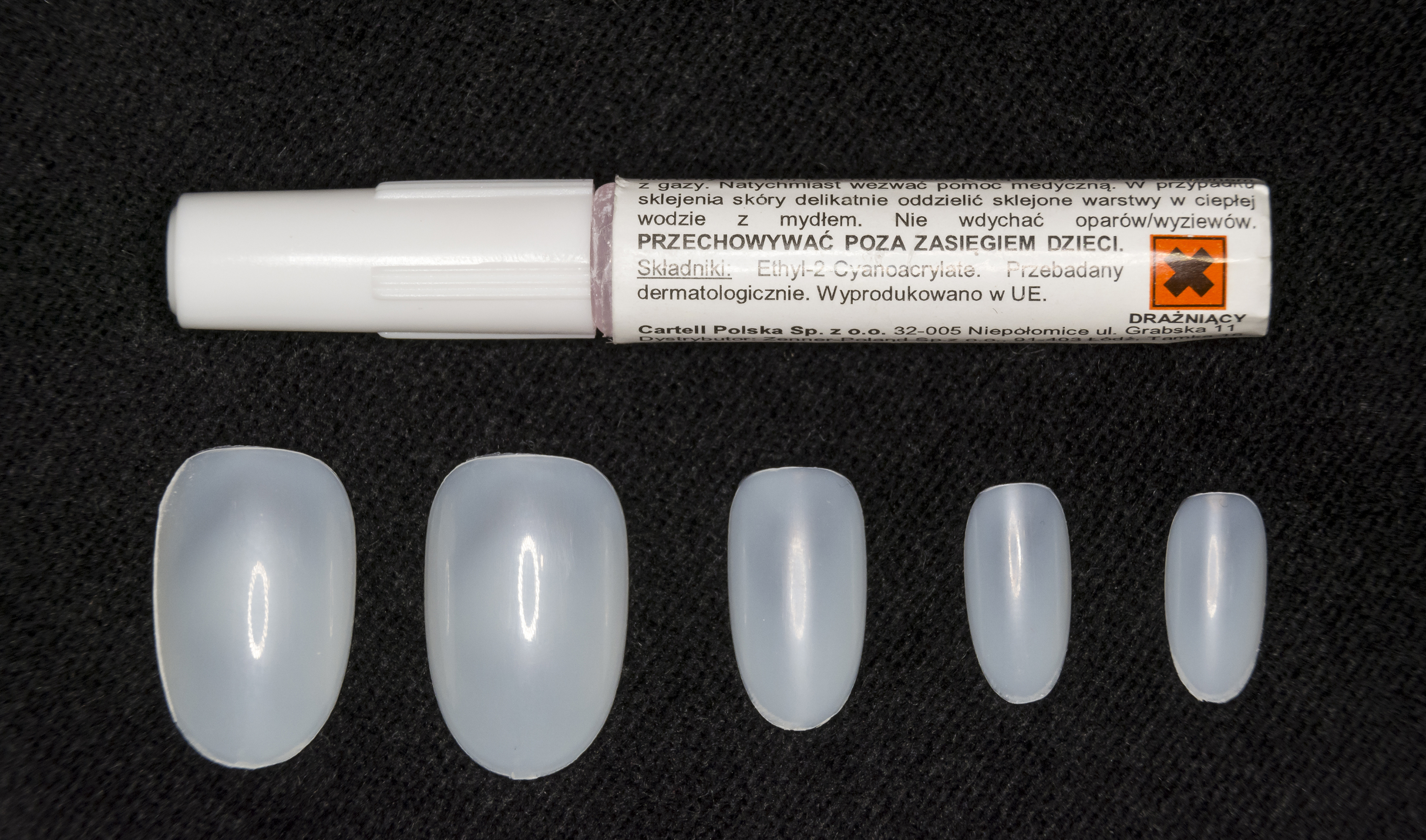 Artificial nails and glue